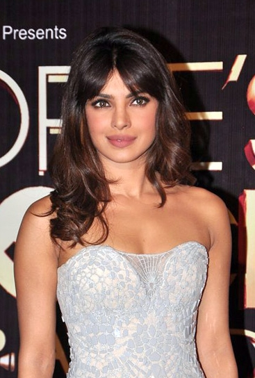 Priyanka Chopra at the People's Choice Awards India in 2012.